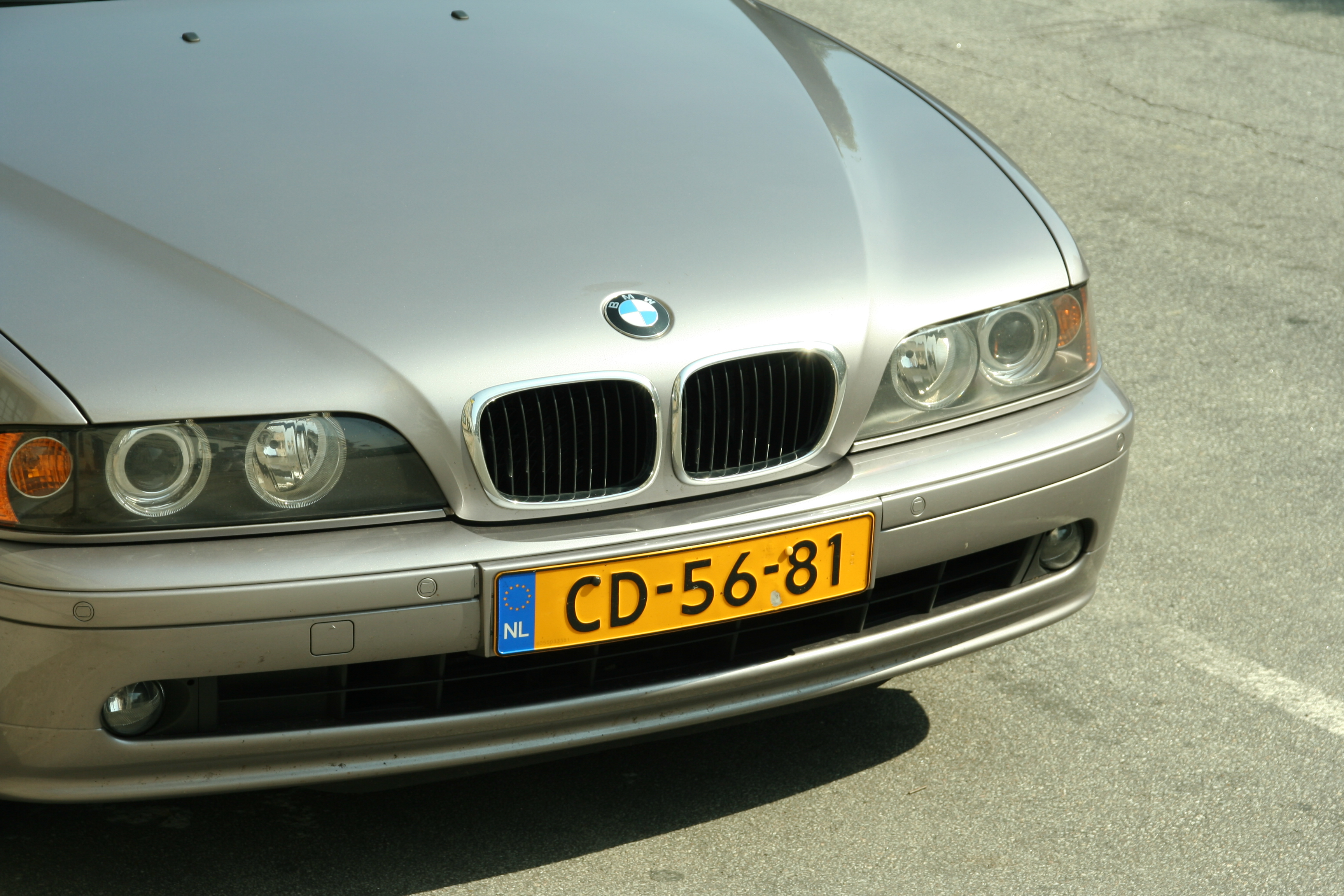 Dutch special vehicle regristration plate, Corps Diplomatique.